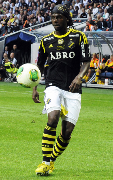 Martin Kayongo-Mutumba in July 2013.